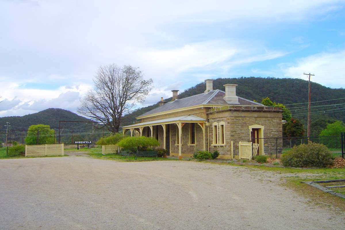 Bowenfels Railway Station, Bowenfels, NSW, Australia I would appreciate notification if you would like to use the photo, thanks.